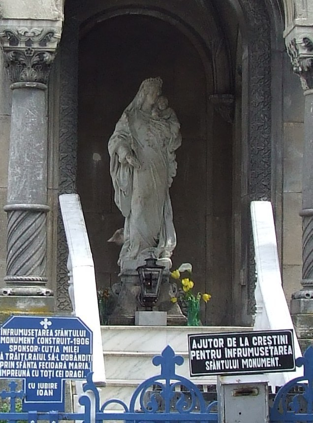 Mary's Memorial, Timişoara (The Reformed Church near)